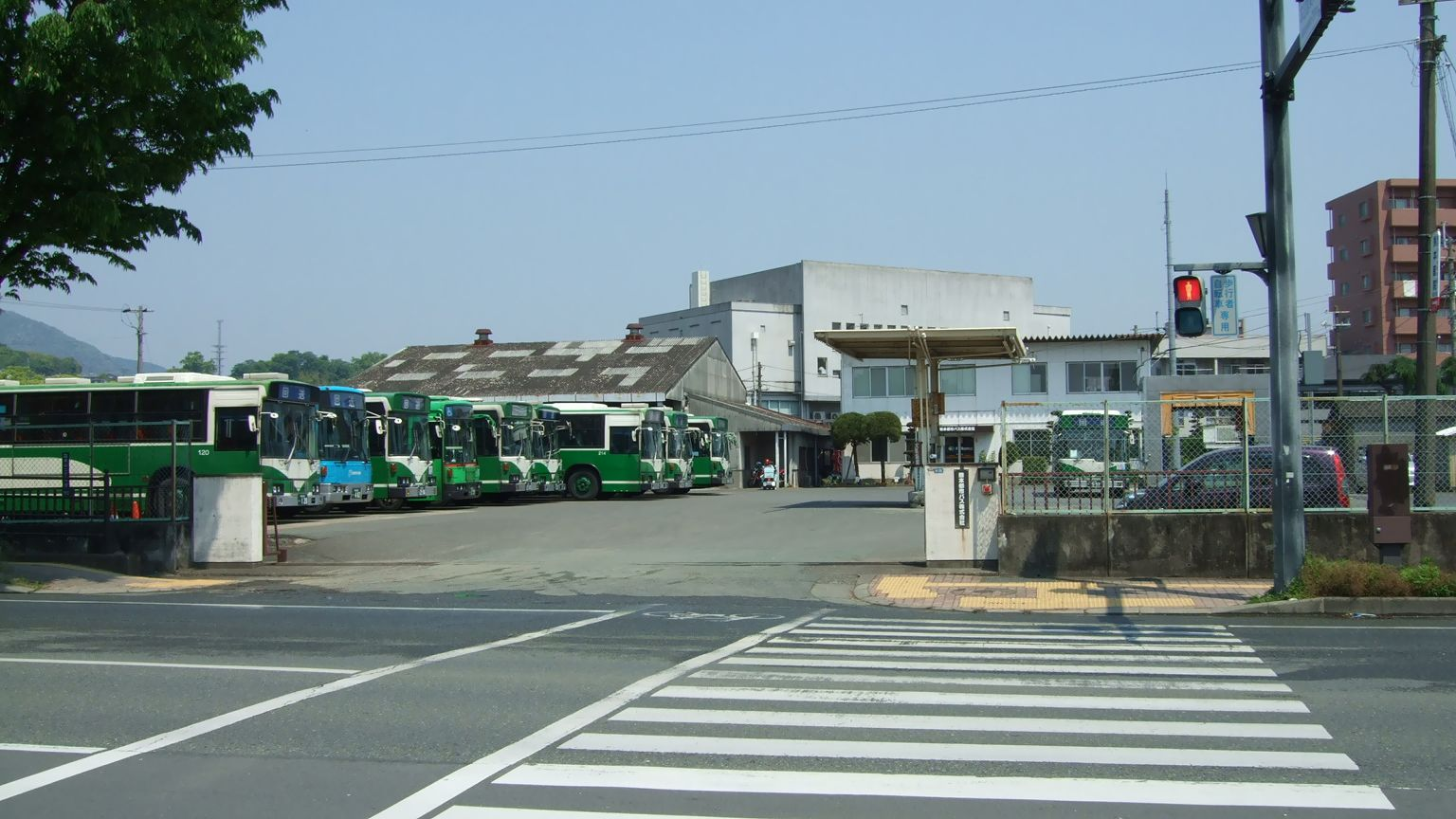 Kumamoto Toshi Bus headquraters